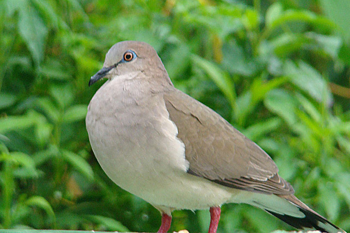 The widespread and variable White-tipped Dove or Paloma Coliblanca in Costa Rica. In context at